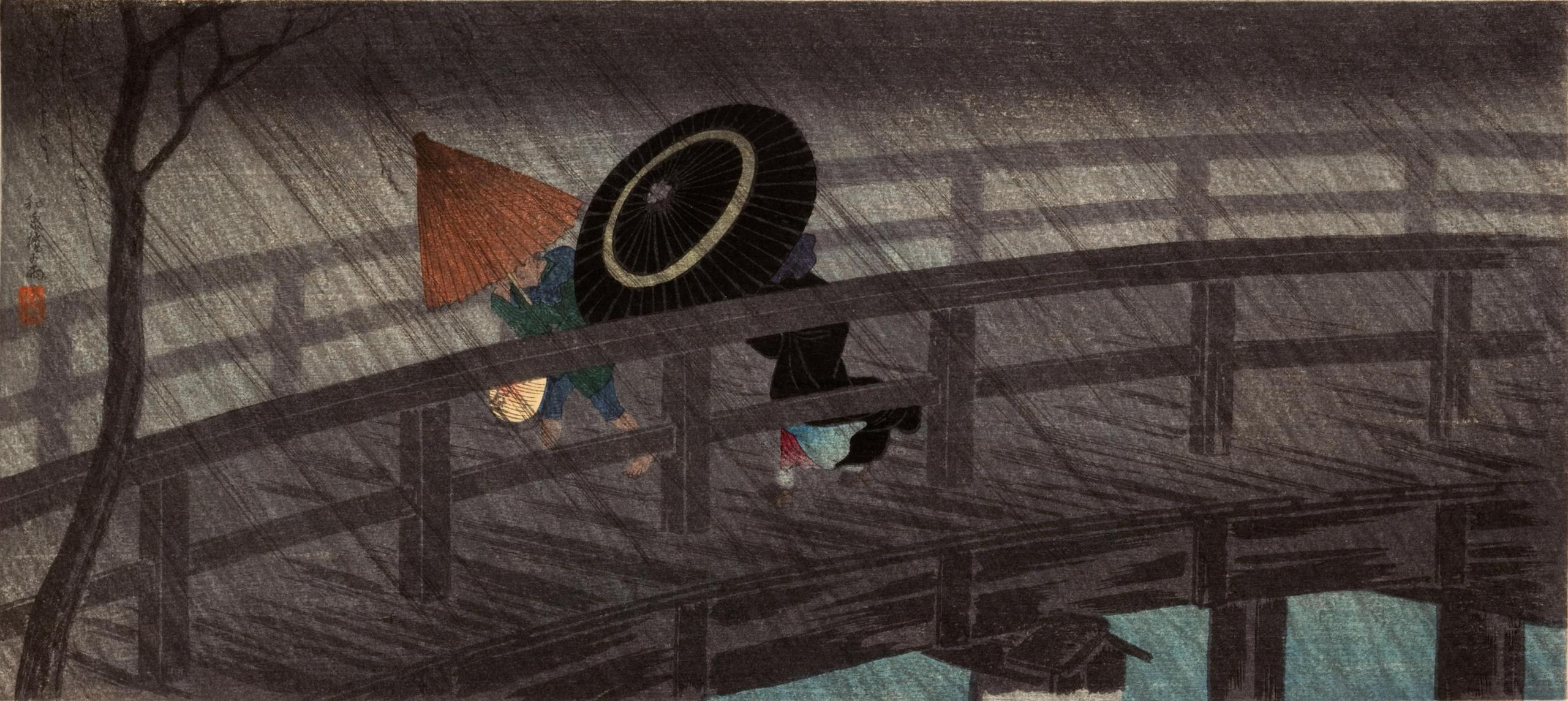 Rain on Izumi Bridge (Izumi-bashi no Ame), wood block print